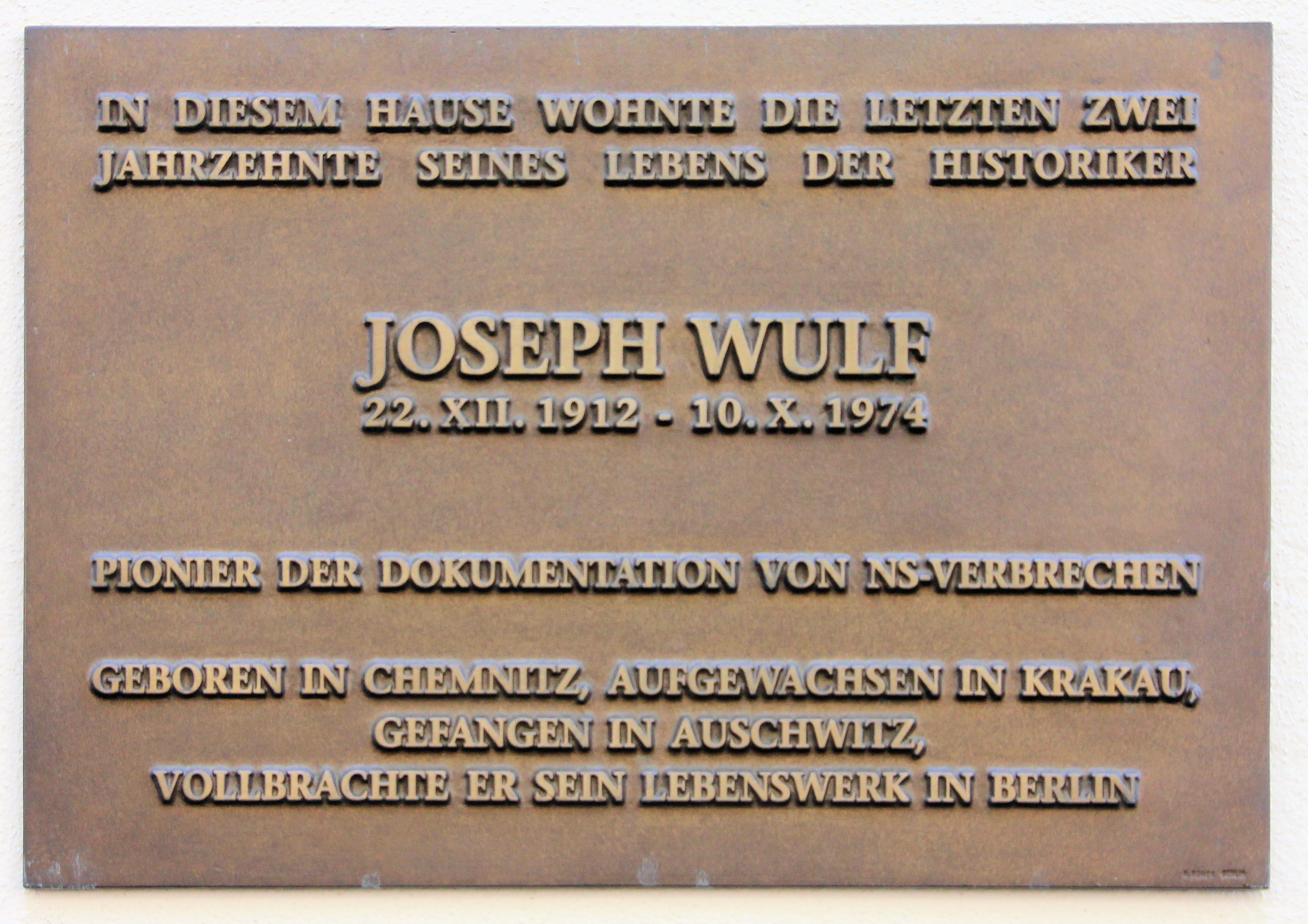 Memorial plaque, Joseph Wulf, Giesebrechtstraße 12, Berlin-Charlottenburg, Germany Koordinate:52°30′10″N 13°18′30″E / 52.50278°N 13.30833°E